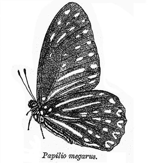 Papilio megarus = Graphium megarus (Westwood, 1844)